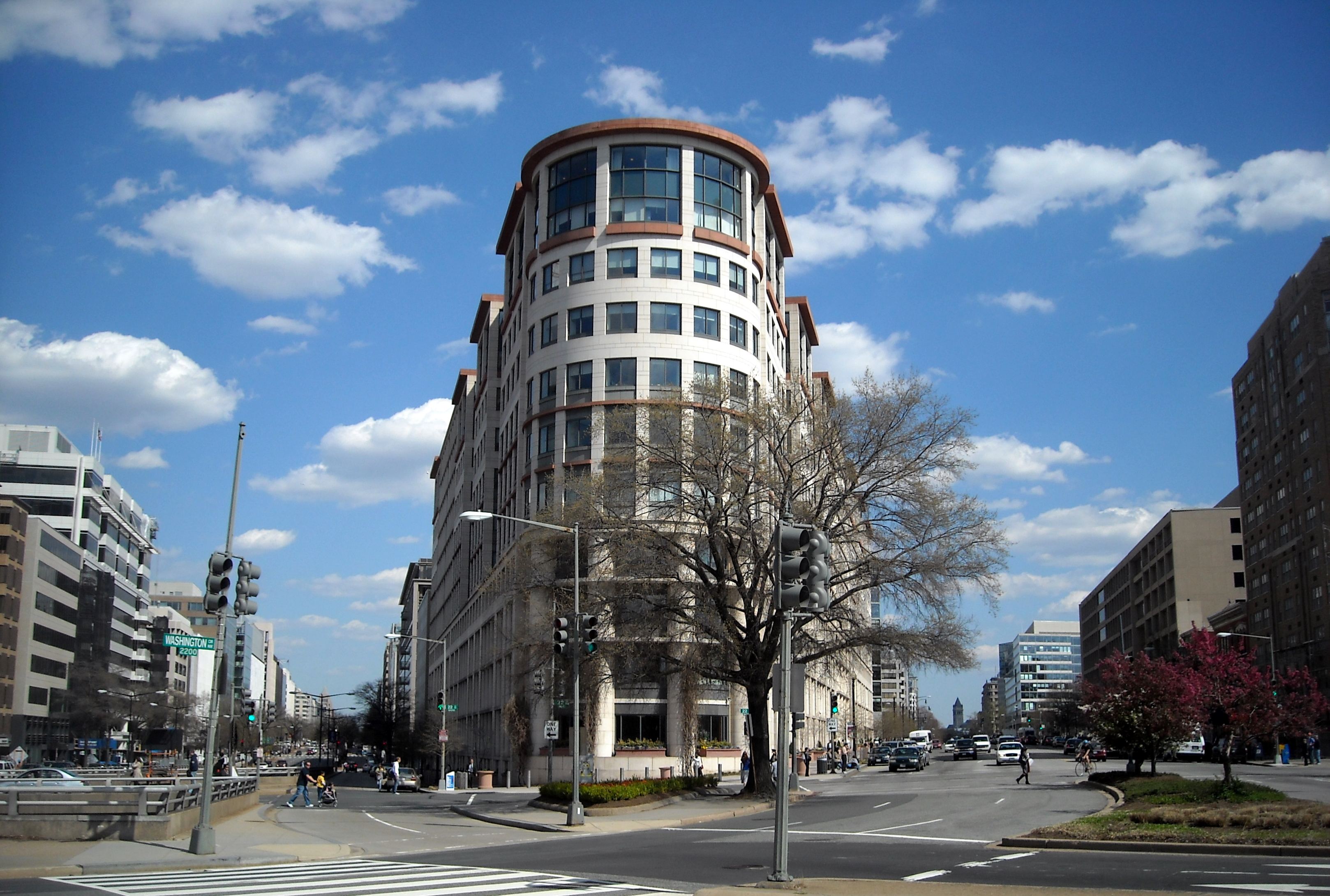 Looking east down K Street (left) and Pennsylvania Avenue (right), Northwest in the Foggy Bottom neighborhood of Washington, D.C. The International Finance Corporation Building is visible in the center of the photo.